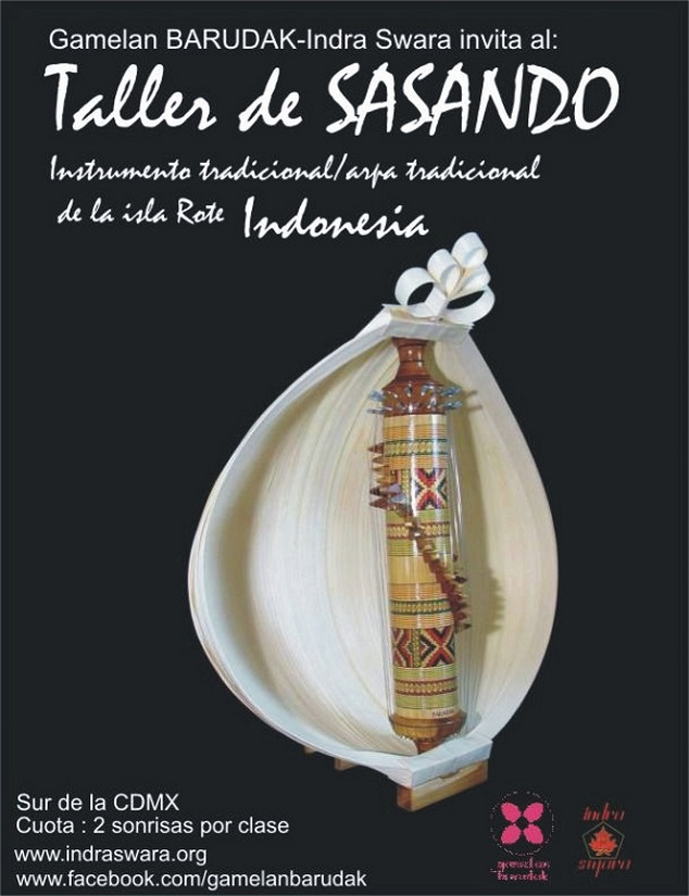 grupo Indra Swara promoviendo sasando en Mexico